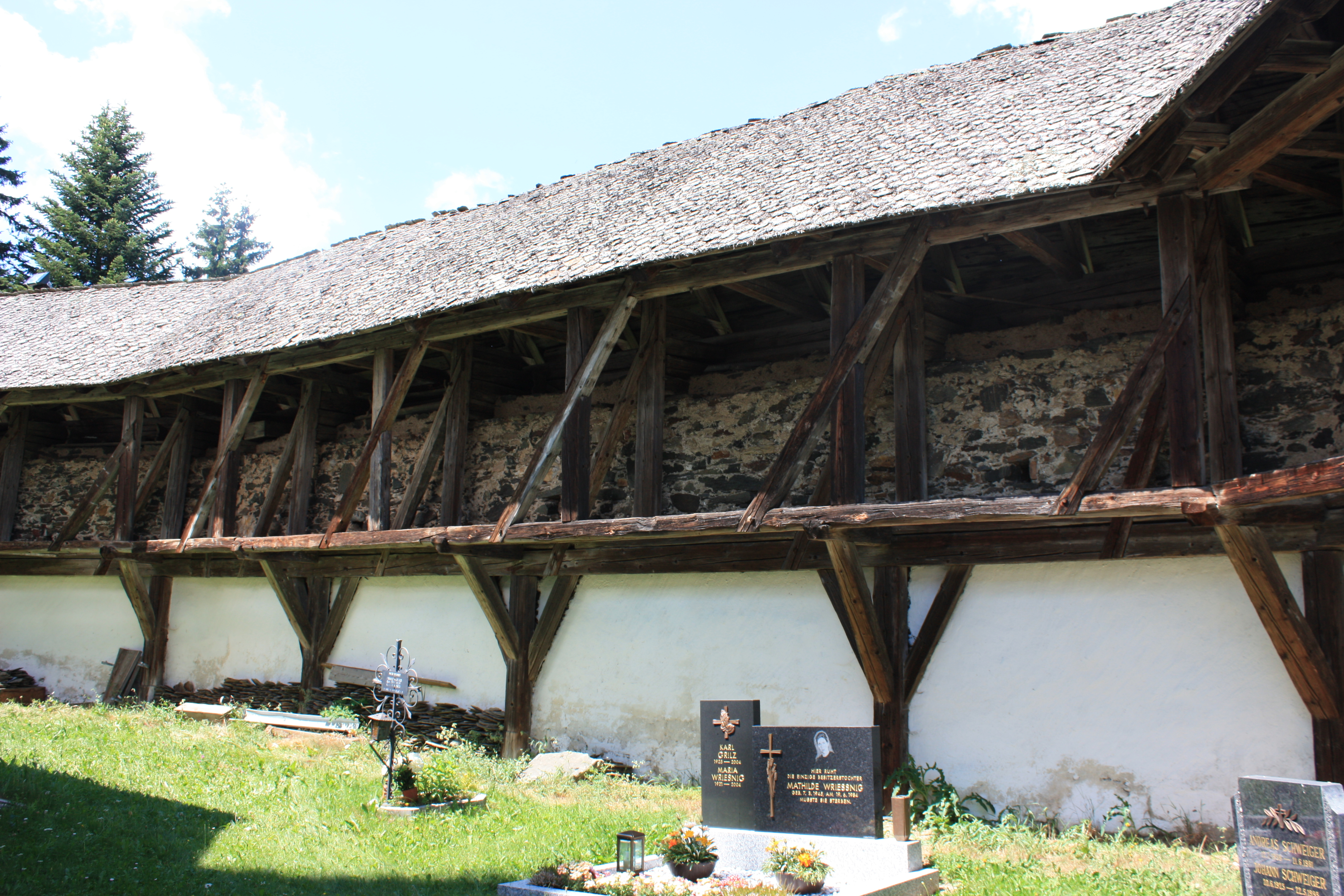 Fortification of the parish church "Maria Magdalena" in Grafenbach in the community of Diex